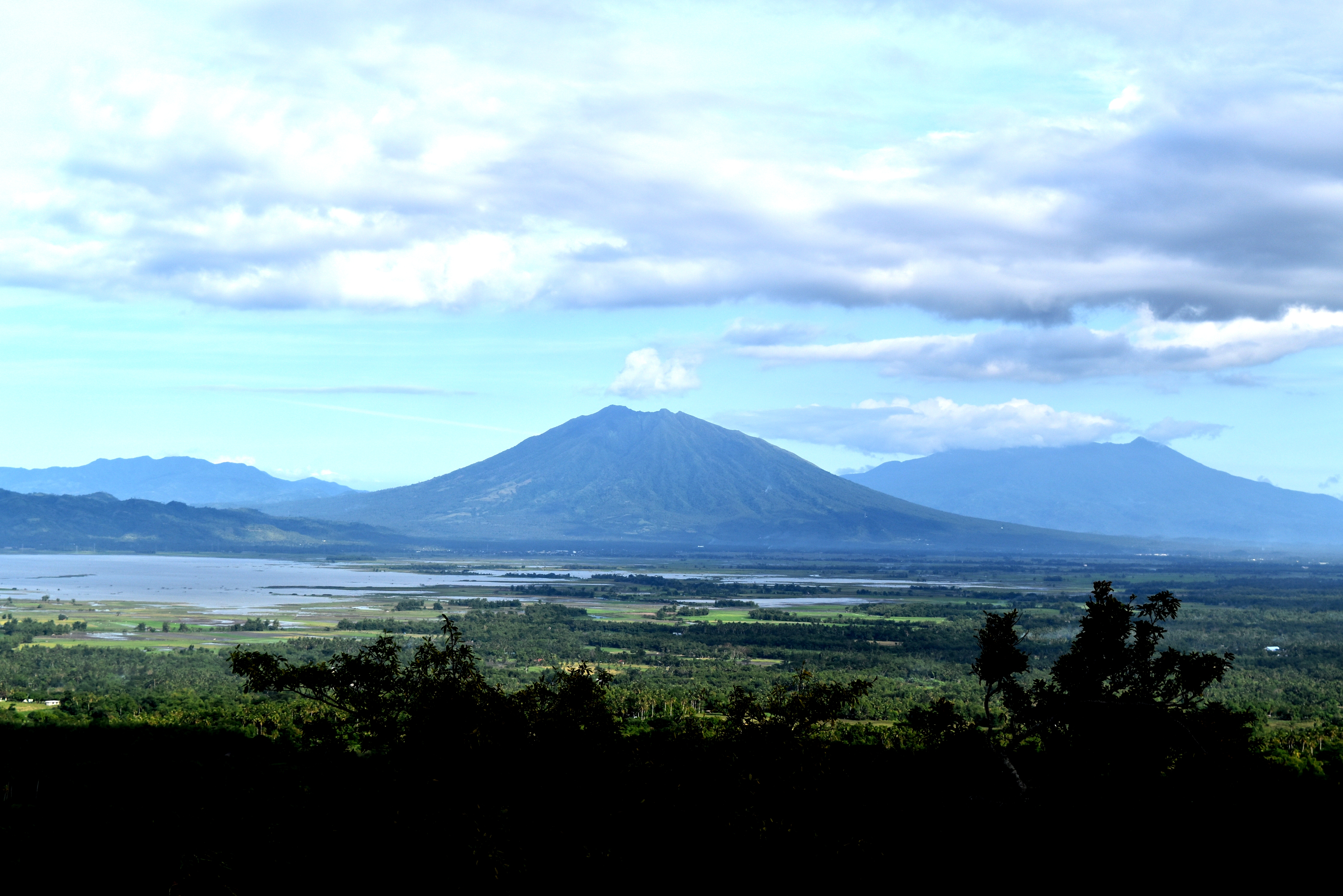 Mt. Asog seen at Bula, Cam Sur